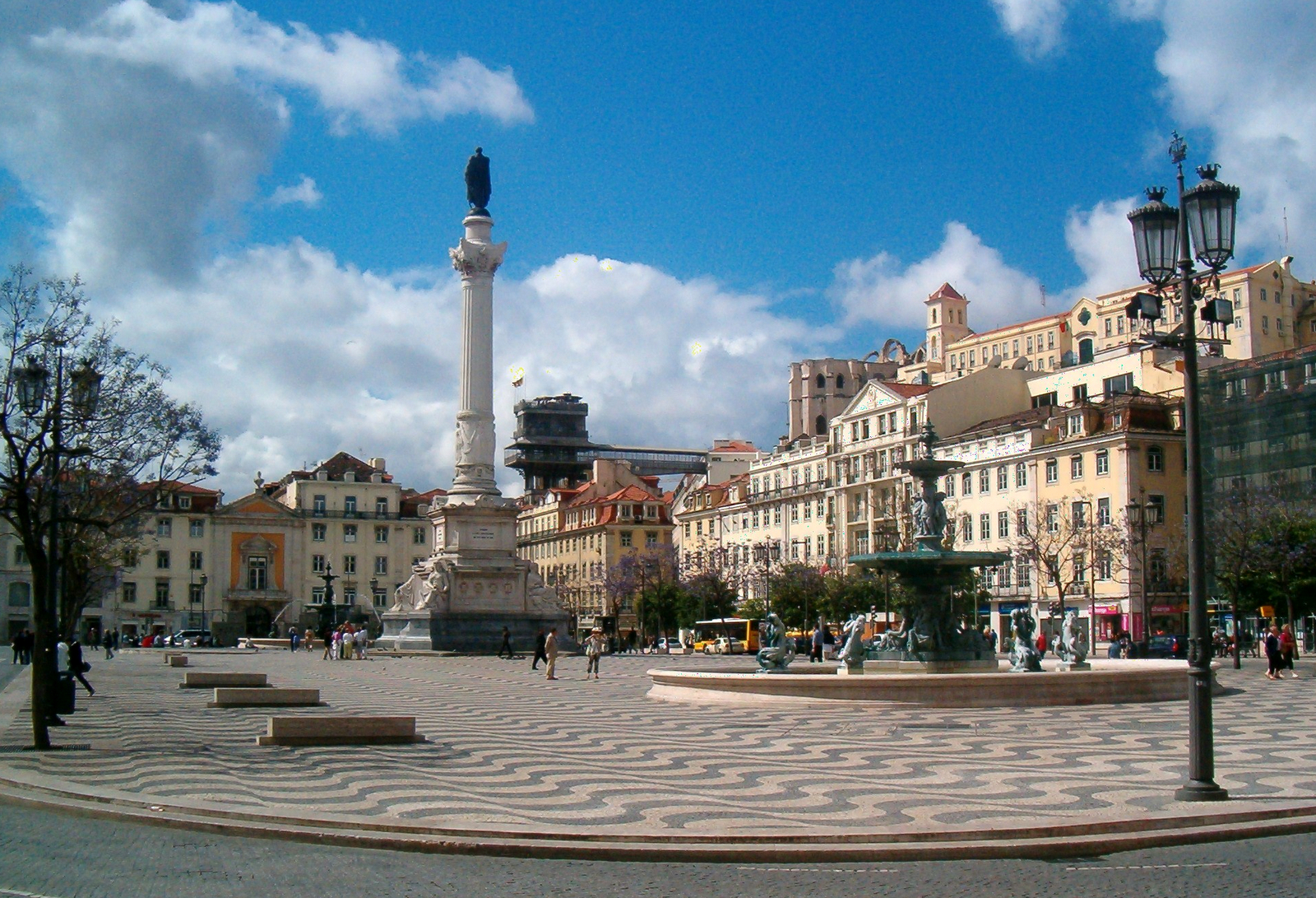 Praça dom Pedro IV in Lisbon